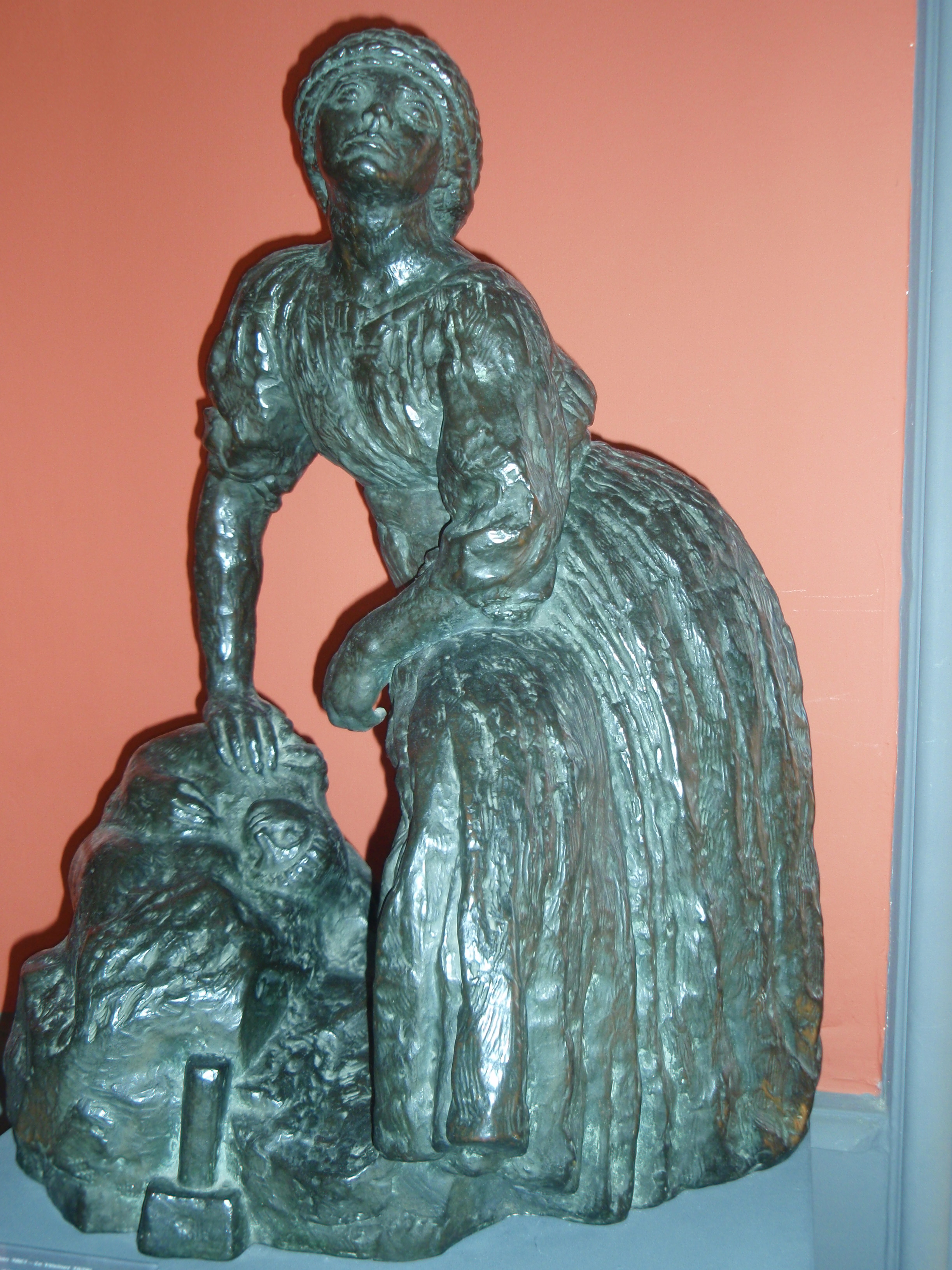 'Resting Sculptor' by Émile-Antoine Bourdelle, 1905-8, bronze